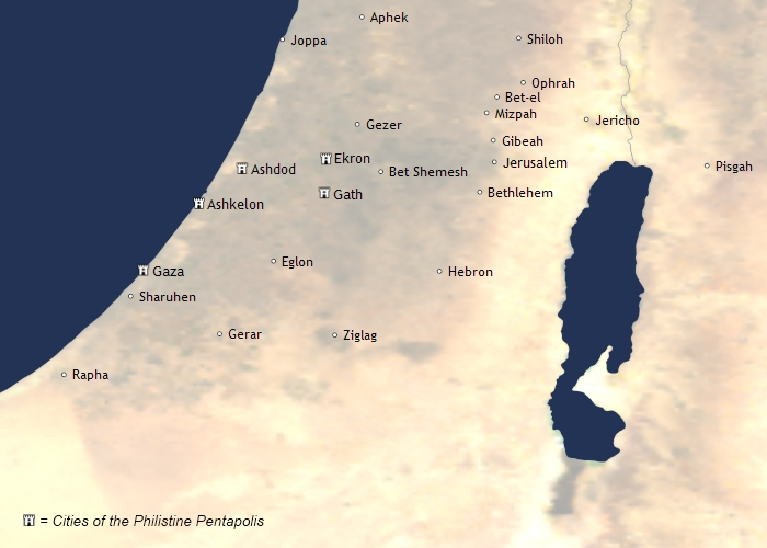 Map of the Philistine Pentapolis Aphek (Antipatris, Tell Afik) : 32.104380 N, 34.931880 E Ashdod (Asdudu) : 31.756558 N, 34.658457 E Ashkelon : 31.668962 N, 34.553914 E Gaza (Azzati, Hazzat, Azzah) : 31.547716 N, 34.513429 E Bet Shemesh (house of Shamash) : 31.751349 N, 34.975121 E Bet-el (Baytin) : 31.921862 N, 35.239972 E Bethlehem : 31.705092 N, 35.200644 E Eglon (Tell el-Hesi) : 31.547683 N, 34.730278 E Ekron (Tel Miqne) : 31.778227 N, 34.850253 E Gath (Tel es-Safi) : 31.700813 N, 34.846286 E Gerar (Tel Haror) : 31.381640 N, 34.607276 E Gezer : 31.859743 N, 34.921359 E Gibeah (Tell el-Ful ?) : 31.823216 N, 35.231368 E Hebron : 31.524440 N, 35.101899 E Jericho (Tell es Sultan) : 31.871002 N, 35.443910 E Jerusalem (Jebus) : 31.773573 N, 35.234090 E Joppa (Yapu, Japho, Jaffa) : 32.053785 N, 34.752808 E Mizpah (Tell en-Nasbeh) : 31.885735 N, 35.216278 E Ophrah : 32.610448 N, 35.289963 E imprecise coordinates Pisgah : 31.765095 N, 35.719079 E imprecise coordinates Rapha (Rafah) : 31.288611 N, 34.251944 E Sharuhen (Tell el-Ajjul) : 31.467665 N, 34.404297 E Shiloh : 32.056001 N, 35.289578 E Ziglag (Tell Halif, Tell Khuweilifeh) : 31.382691 N, 34.866604 E